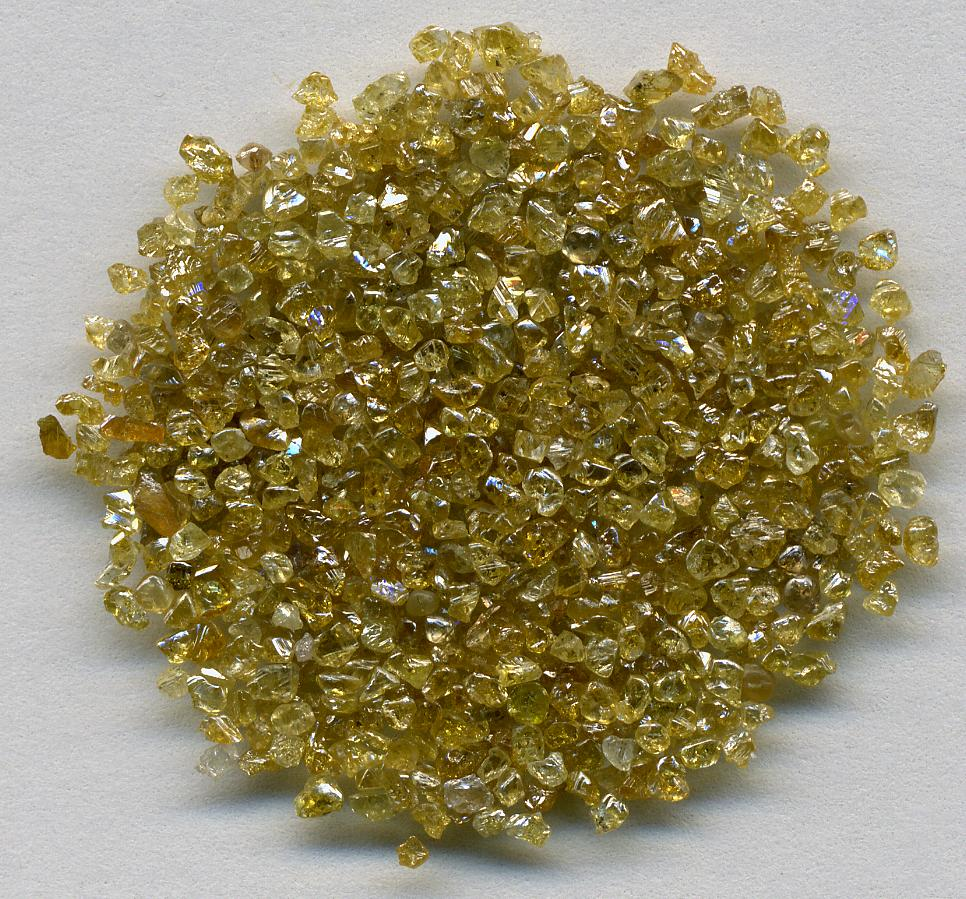 Crystals are ~1 to 1.5 mm in size.